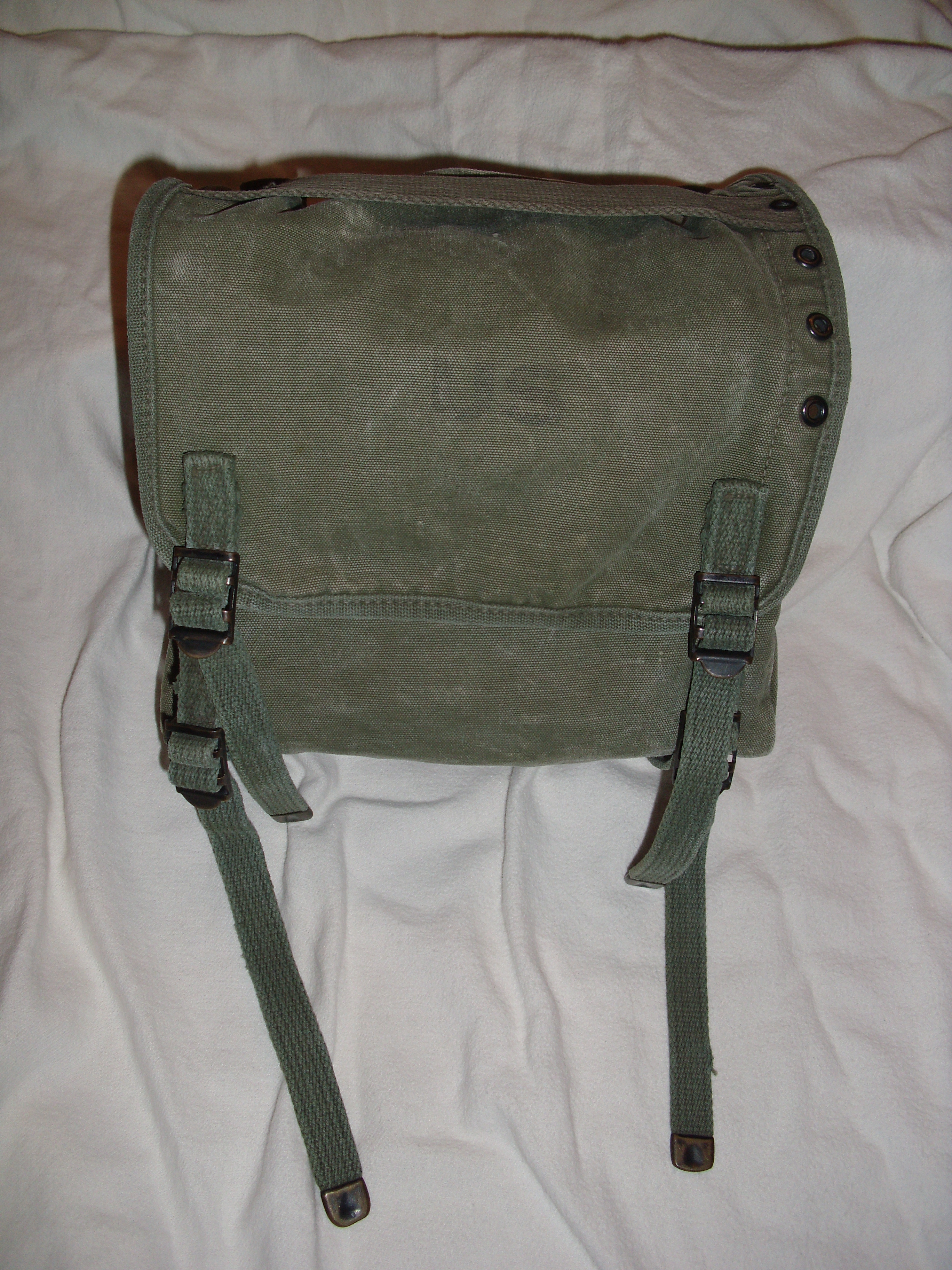 Pack, field M1956